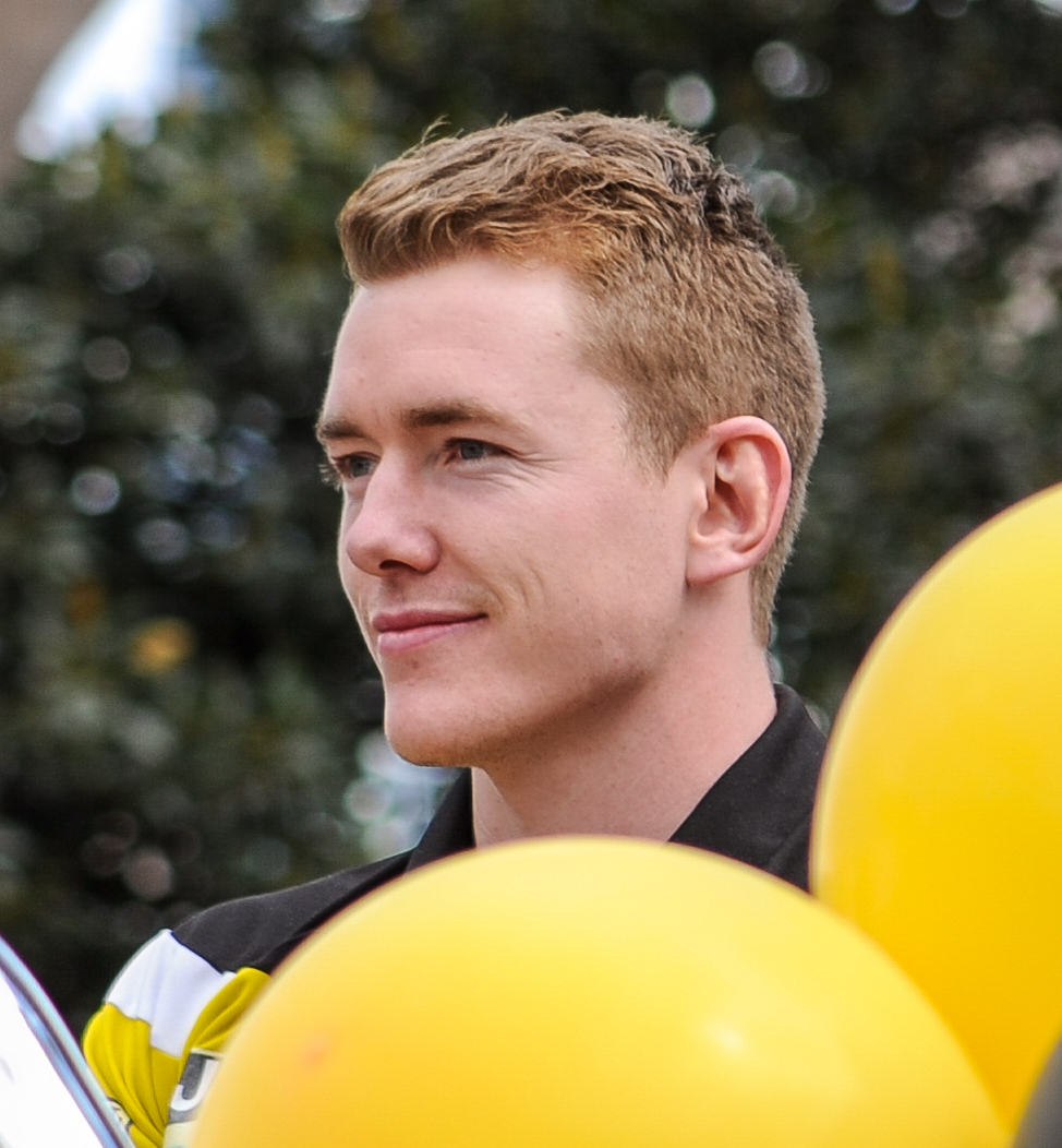 Jacob Townsend at the 2017 AFL Grand Final parade on 29 September 2017 in Melbourne, Victoria.